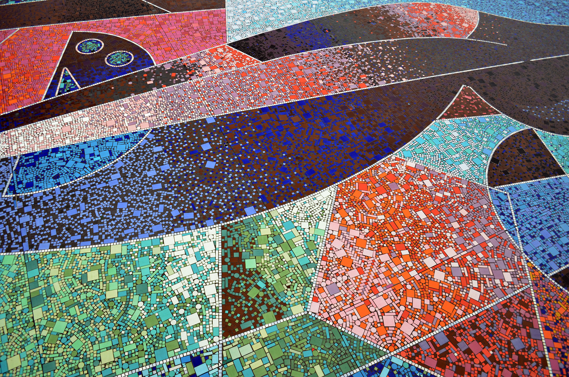 Detailed view of the mosaic: Homenaje a la Mujer del Mundo